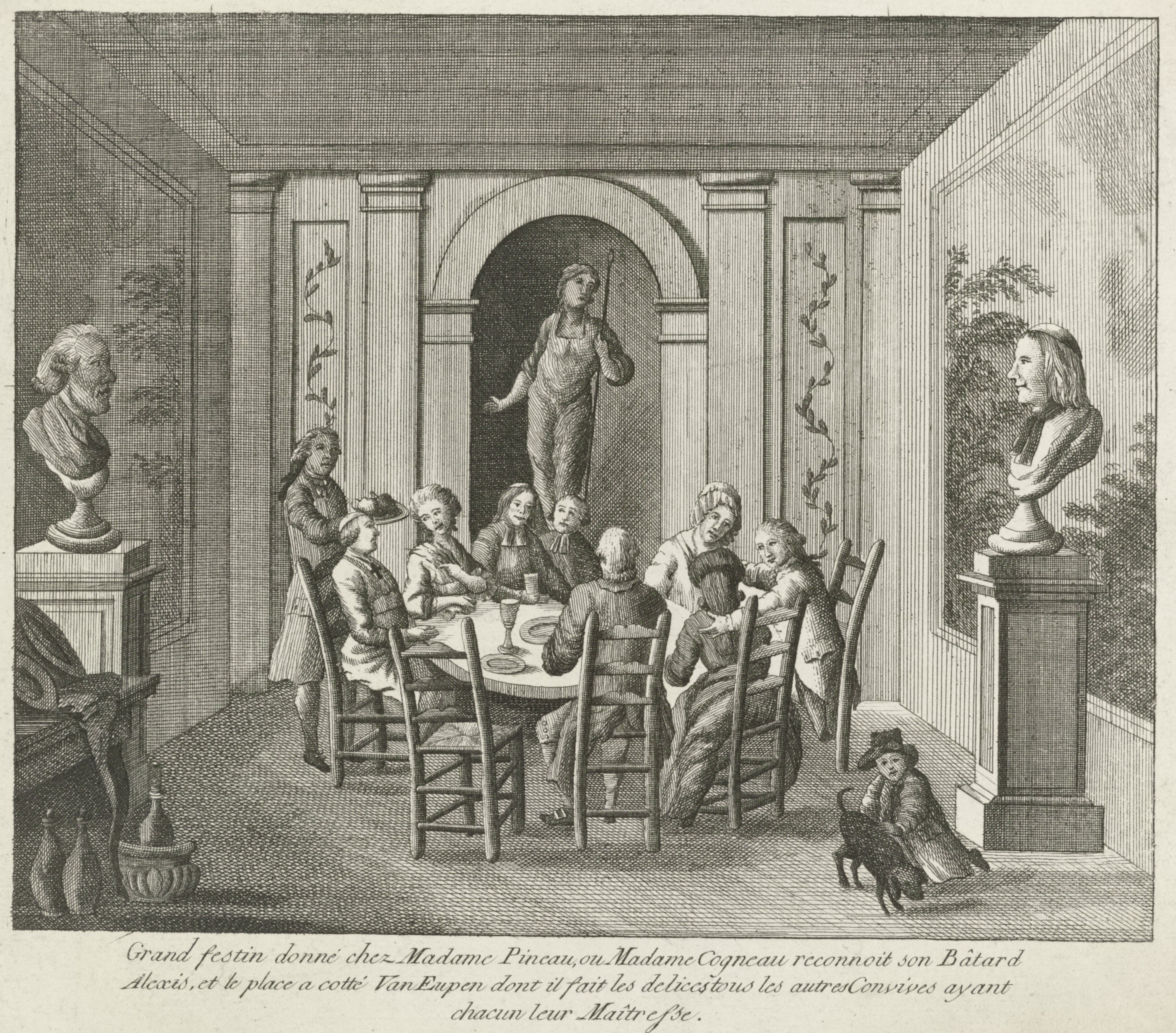 Cartoon of Brabant revolution